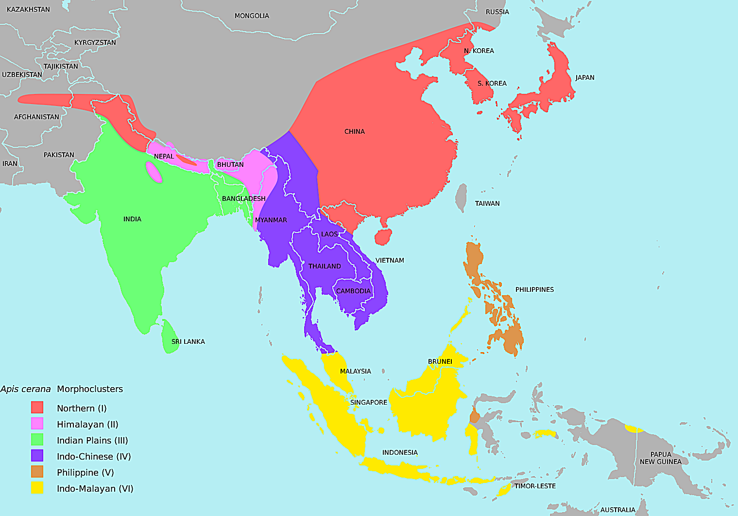 Geographical distribution of the six Apis cerana morphocluster groups per: Radloff, Sarah E.; Hepburn, Colleen; Randall Hepburn, H.; Fuchs, Stefan; Hadisoesilo, Soesilawati; Tan, Ken; Engel, Michael S.; Kuznetsov, Viktor (15 March 2010). "Population structure and classification of Apis cerana". Apidologie. 41 (6): 589–601.